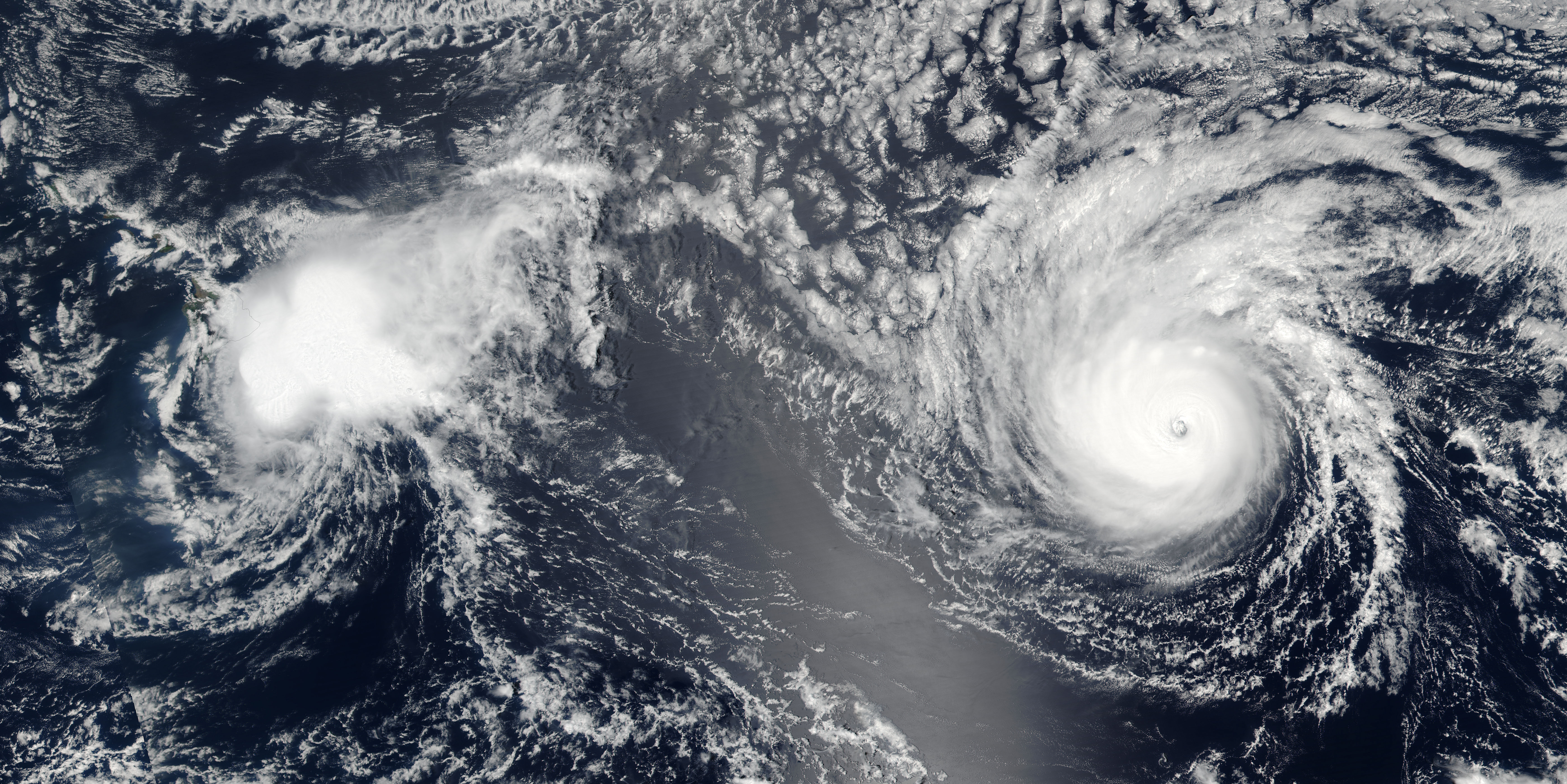 Hurricane Lester (13E) and Tropical Storm Madeline (14E) approaching Hawaii